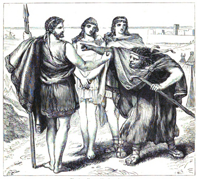 Act II, scene ii. Thersites criticizes Ajax to Achilles